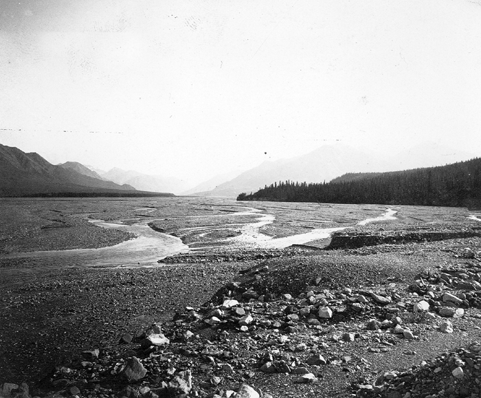 Gravel floodplain of a glacial river near the Snow Mountains in Alaska, 1902. Looking up river (glacial) showing gravel flood plain. Snow Mountains in background. Alaska. August 10, 1902. Digital File:bah00751 ID. Brooks, A. H. 0751 Image uploaded to illustrate article entitled Floodplain. USGS